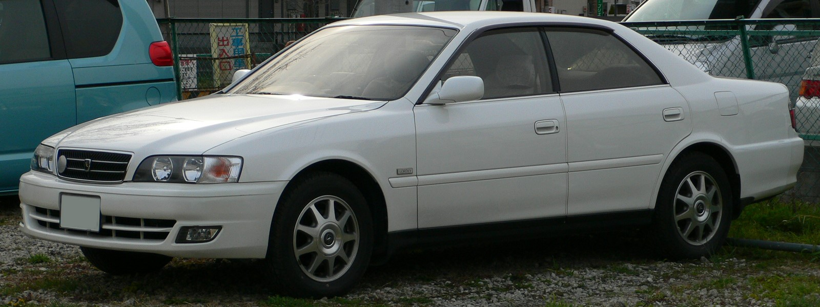 Toyota_Chaser (1998)